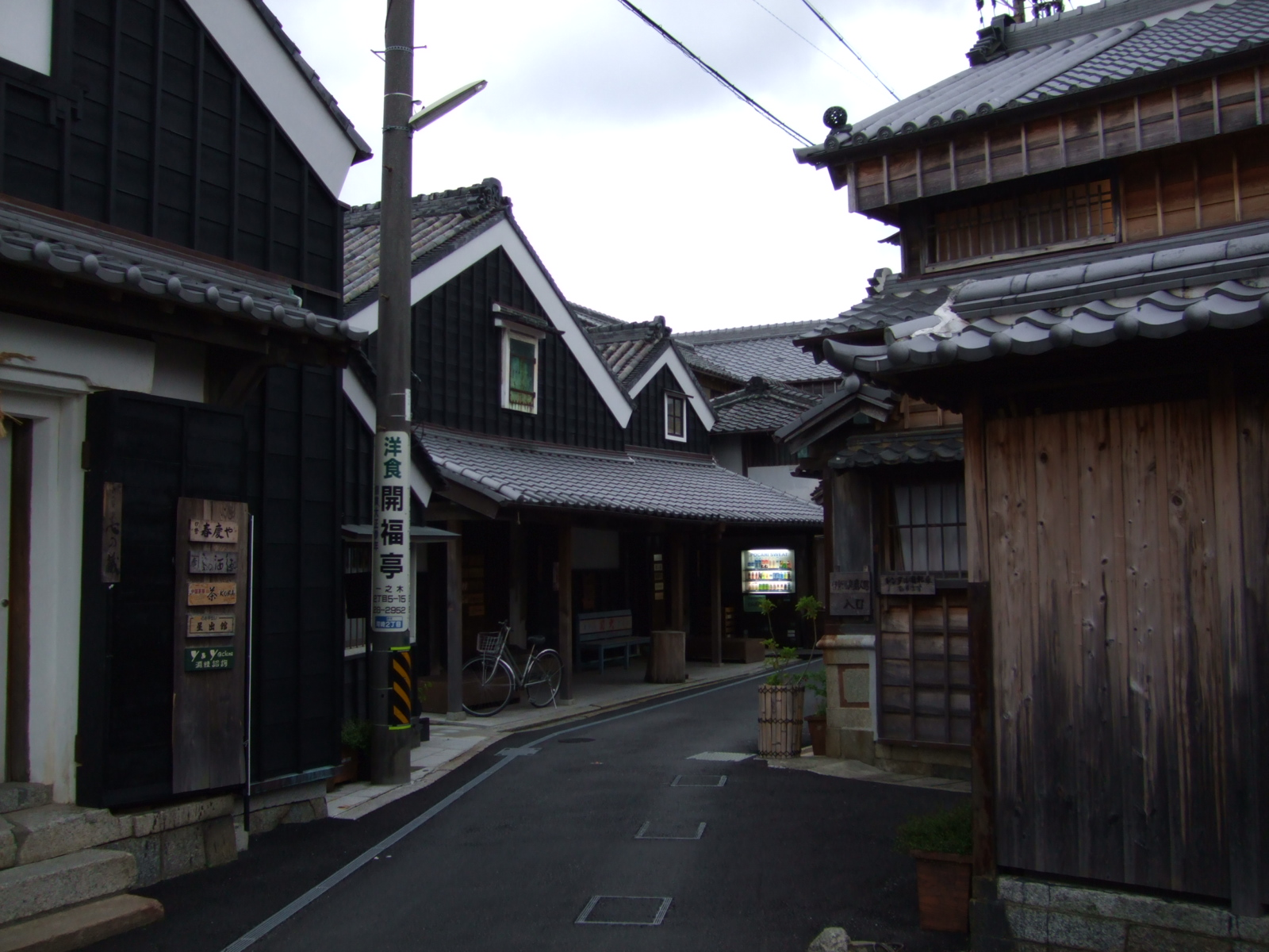 Streets in Kawasaki area, Ise City, Mie, Japan.